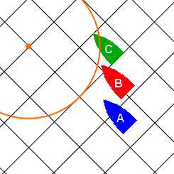 Overlaps at a mark during a team race: the mark's zone is reduced to two hull lengths from the three the Rules generally prescribe.